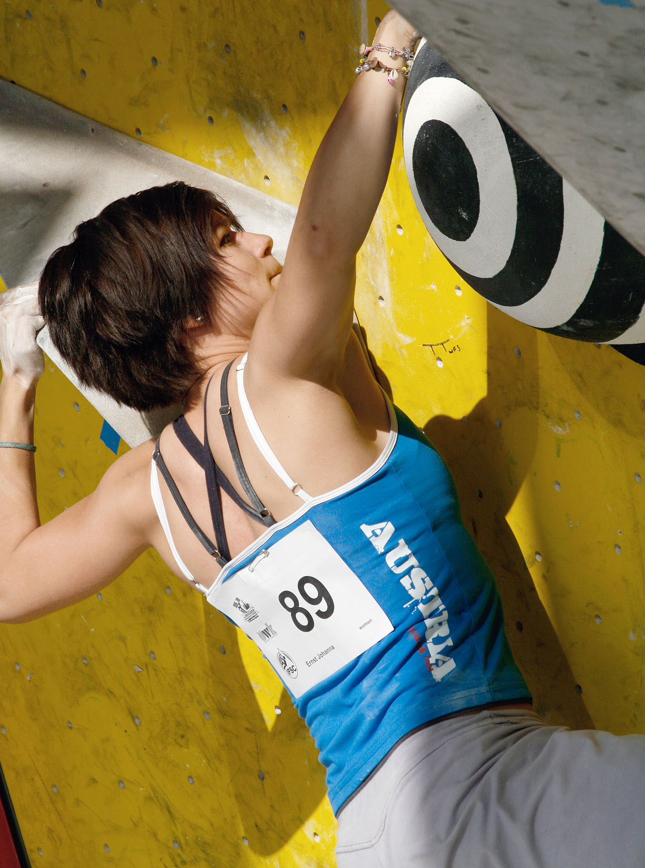 Johanna Ernst during qualifications at the IFSC Boulder Worldcup Vienna 2010.